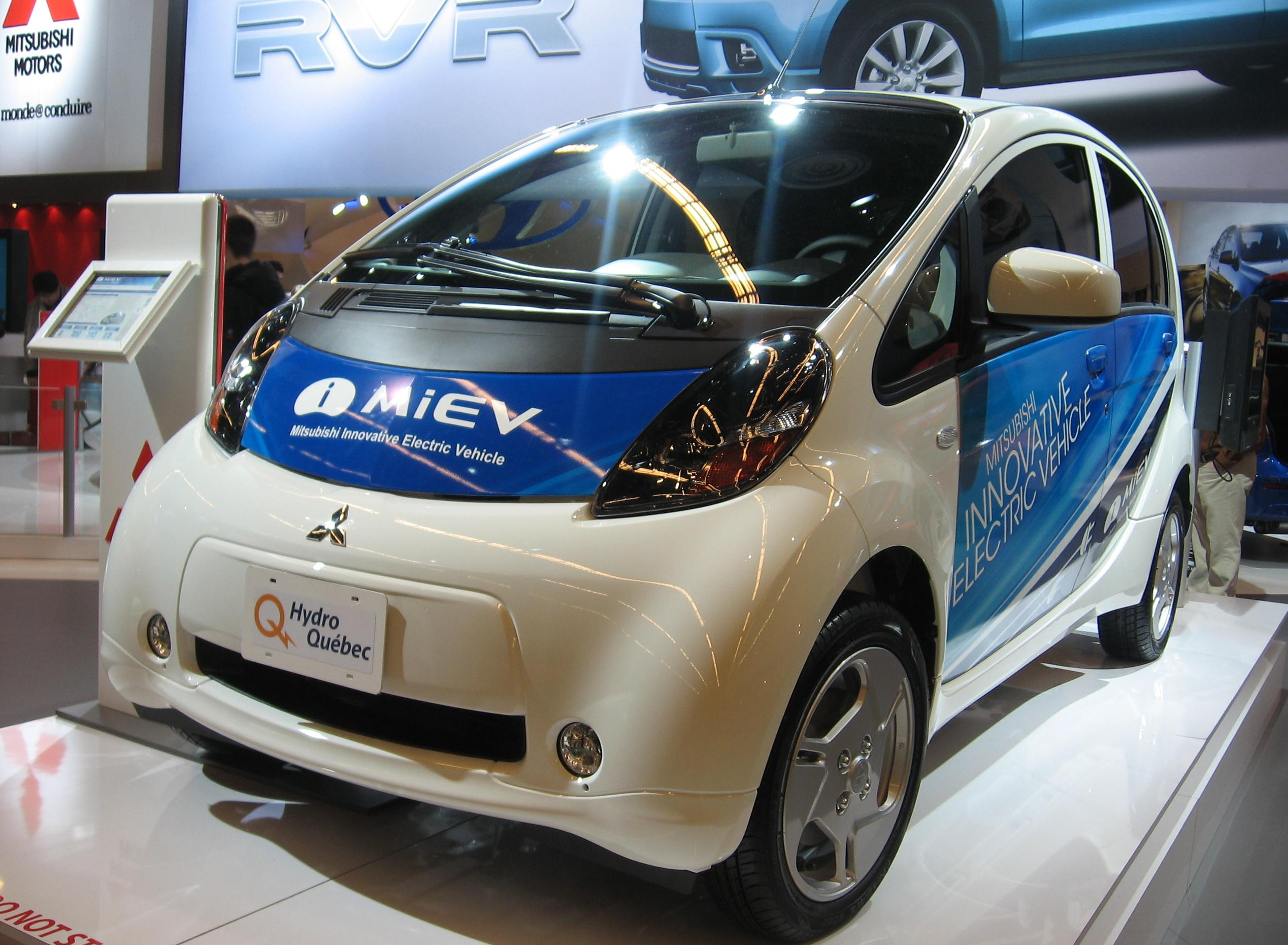 Mitsubishi i MiEV Hydro-Quebec photographed in Montreal, Quebec, Canada at the 2011 Montreal International Auto Show.